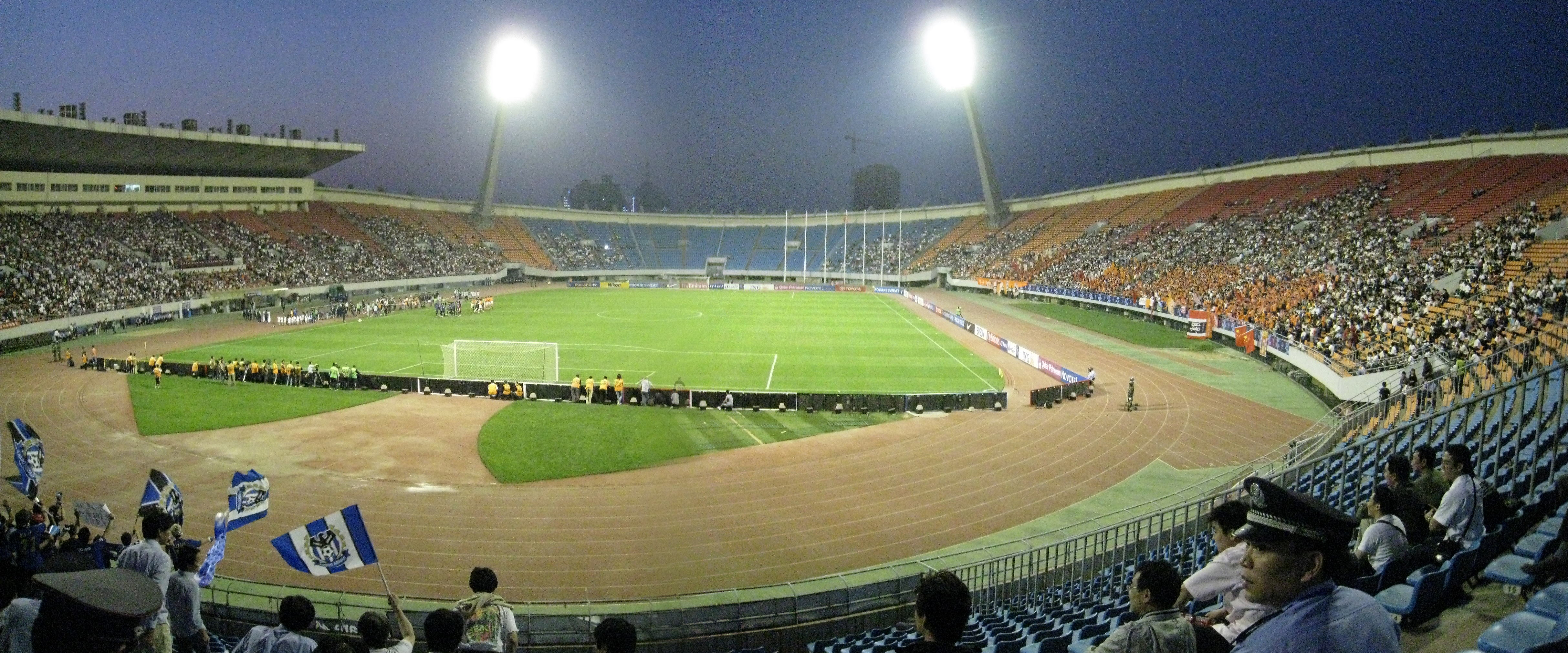 Shandong Sports Stadium in Jinan City. Photo was taken by myself. Shandong vs Ganba-Oosaka. Asia Champions League 2009